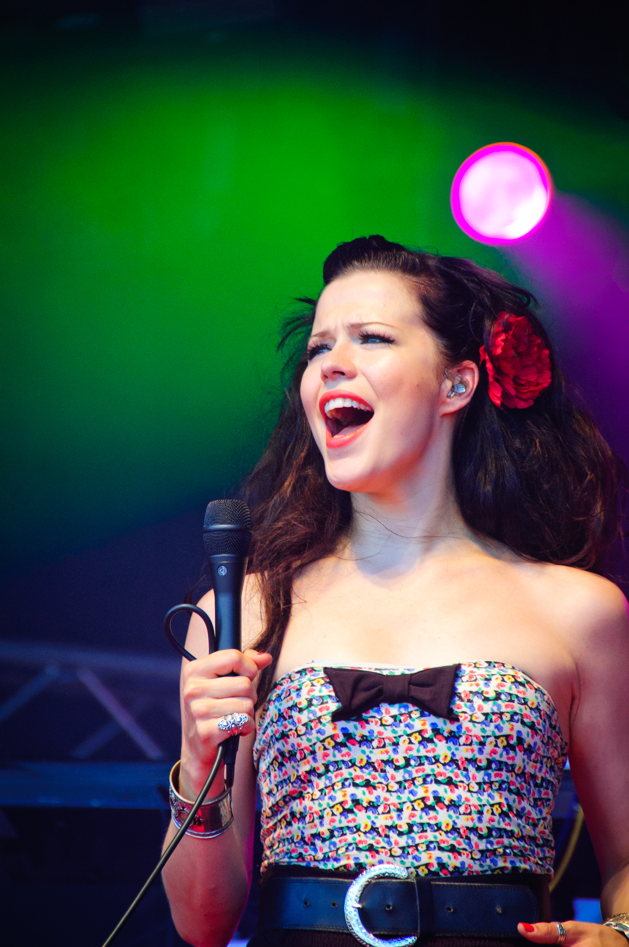 Finnish vocalist Jenni Vartiainen performing at the Ilosaarirock festival in Joensuu, Finland.